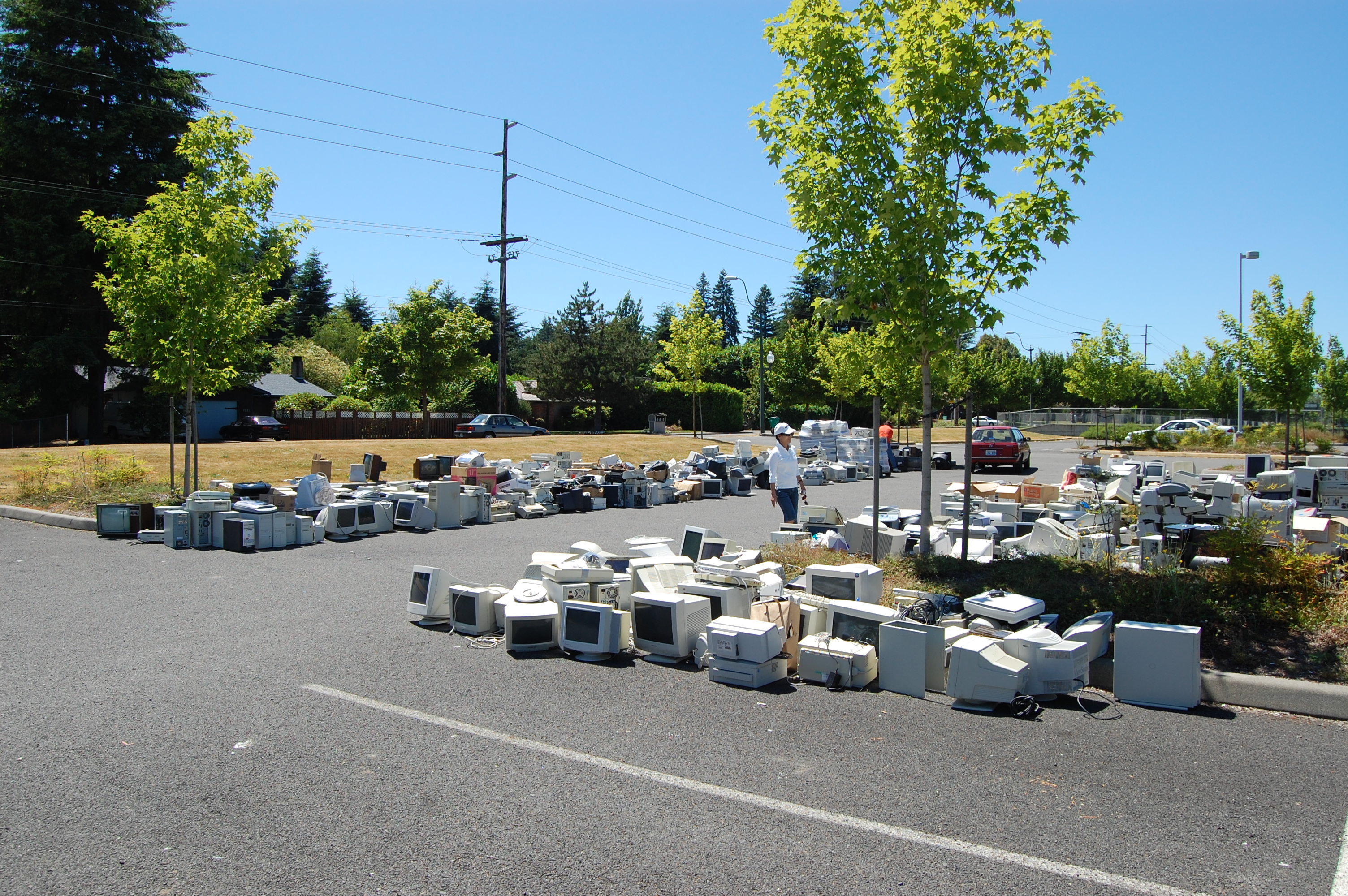 Computers ready for recycling at an event at Olympia High School (Olympia, Washington)